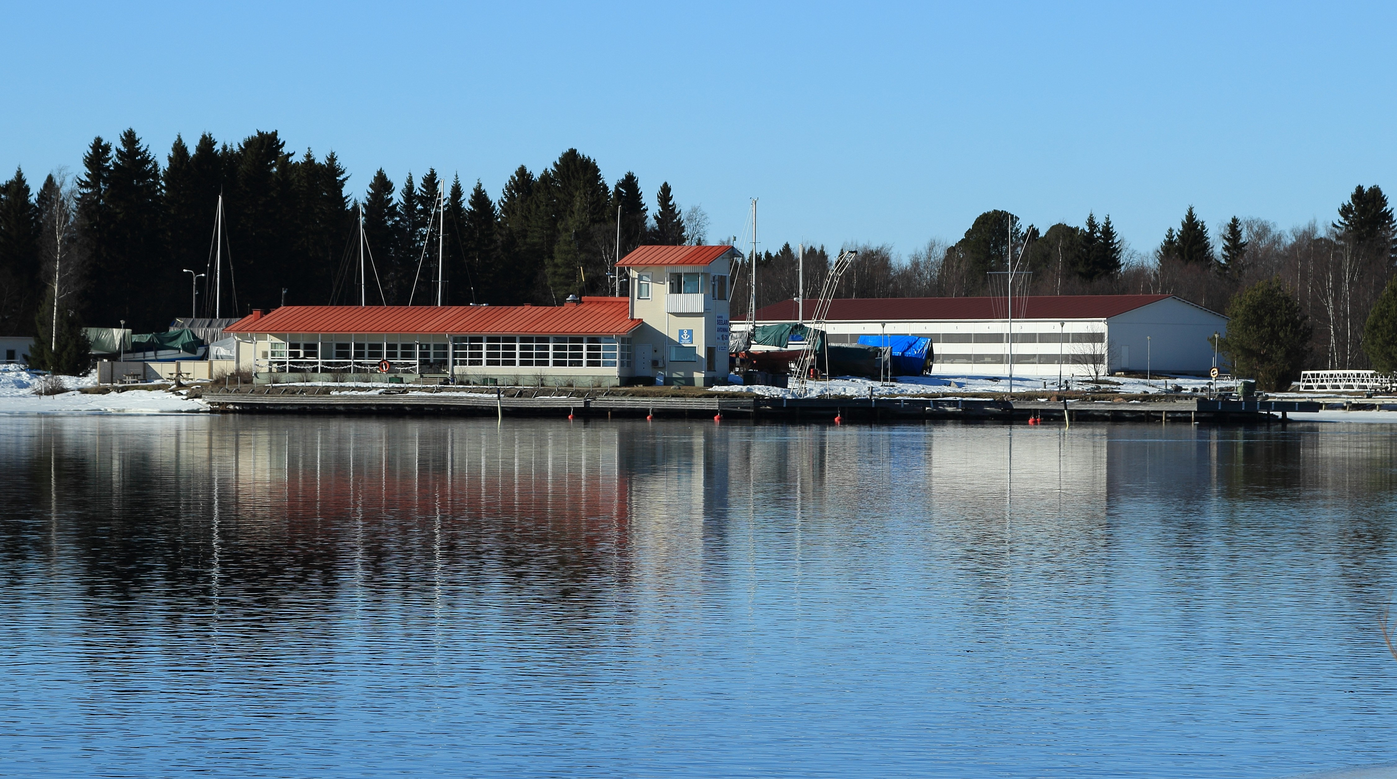 The Marina of the Oulun Työväen Pursiseura yacht club in Hietasaari, Oulu.